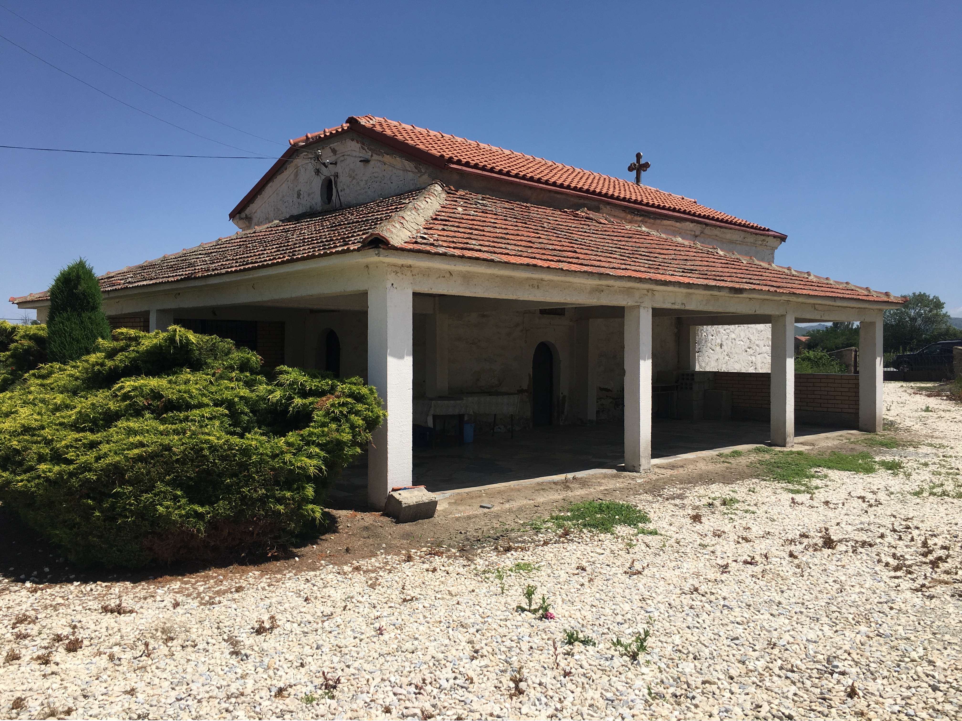 Church of the Resurrection of Christ in the village of Dedebalci